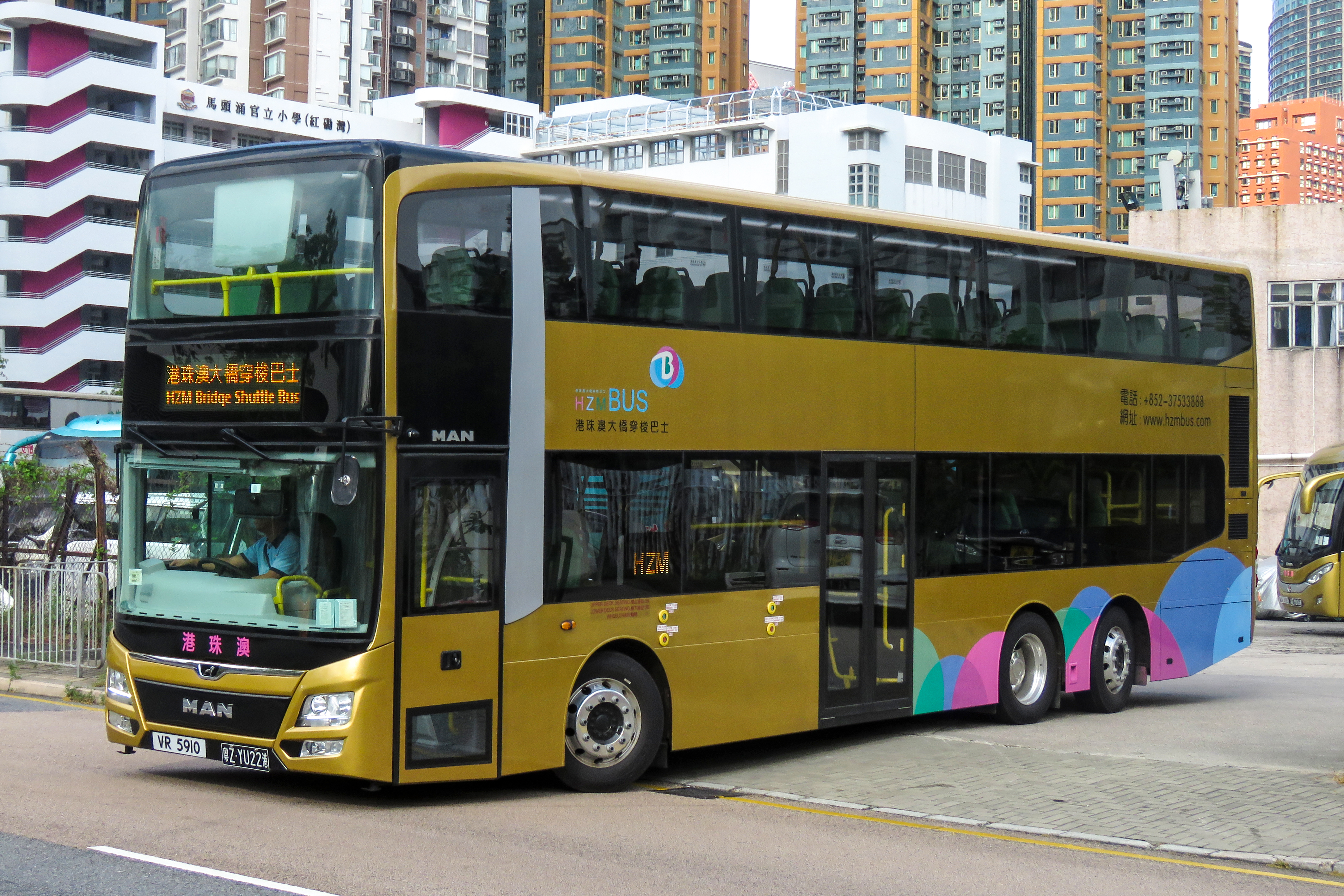 4 days before the opening of Hong Kong-Zhuhai-Macau Bridge, the three MAN A95s come out in the morning.